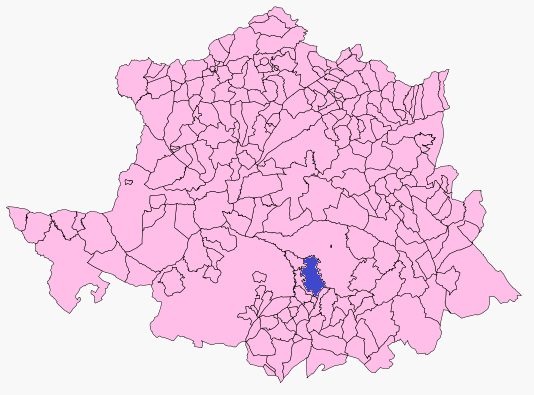 La Cumbre